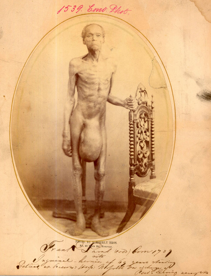 Letter of the Day: October 9 / CP 1539 Norfolk, Va October 9 / 67 ; Col and Surg: A. L. Edwards USA ; Chf M. O. Bur Rgt ; Washington D.C. Col: I have the honor to transmit herewith Photograph of "Frank Lamb" born at Weldens Orchard near Halifax North Carolina, in the year 1789. It's a case of "Inguinal hernia" of 69 years standing. The man was 9 years of age when hernia occurred. The hernia was reducible until he was 40 years of age, when sold to a man, named "Baine Lamb" at or near Jerusalem S. Hampton Co. Va: for the sum of $150.00. The overseer of said man compelled the poor man to work in the woods, cutting and hauling heavy timber, without giving him the support of truss, after his own was worn out. The hernia had its present size about 10 years ago, and I should judge weighs about 10 pounds. Frank Lamb was send (sic) from Jerusalem to Hospital for Freedmen at this City on the 17th July 1867. Has up to this date, not regarding the continued irritation upon his bowels, enjoyed fair health. The Photograph is not very well taken, the artist could not do better, as the patient trembled too much, and hoping it will nevertheless prove interesting. I am Surgeon with profound respect, your most ob: ser't Ferdinand Lessing, AA Surg USA In charge Hosp: for Freedman Norfolk City Va.